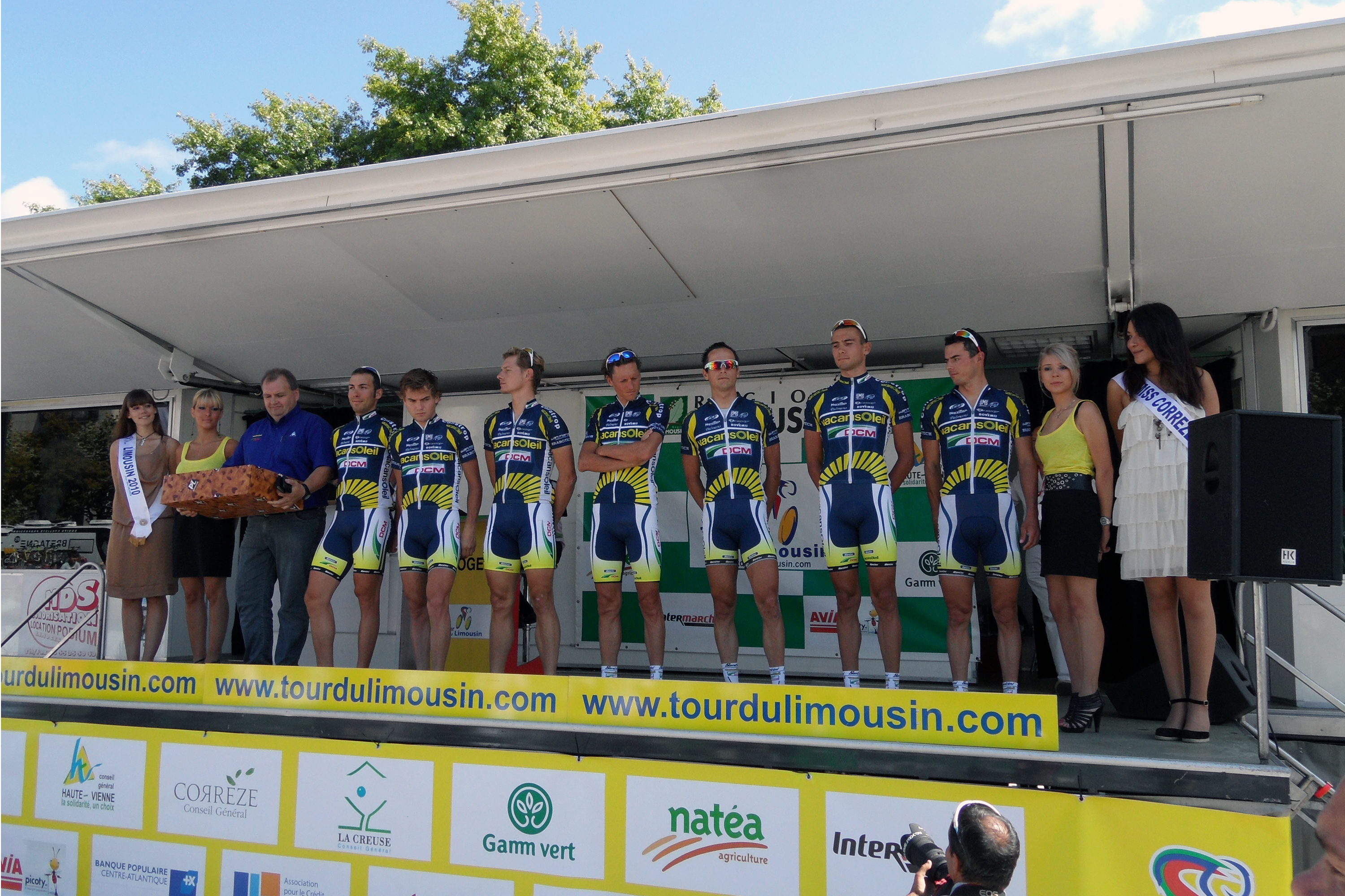 Presentation of the Vacansoleil-DCM cycling team before the start of the first stage of the Tour du Limousin 2011 in Limoges.